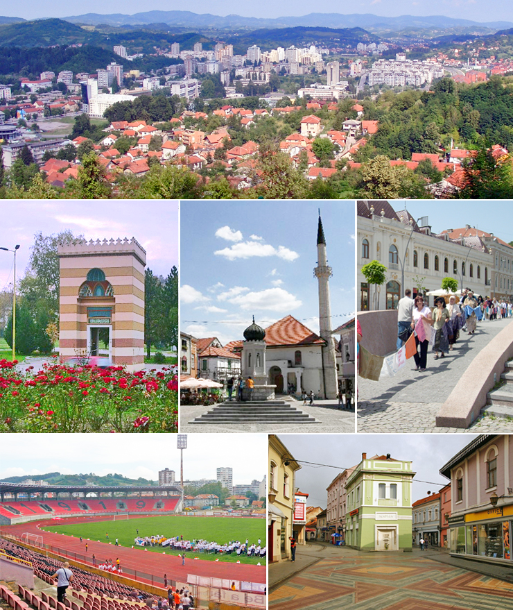 Tuzla collage: Tuzla panorama, Arch of Tuzla, Public fountain and mosque, Tuzla center, Stadion Tušanj, Kapija Tuzla